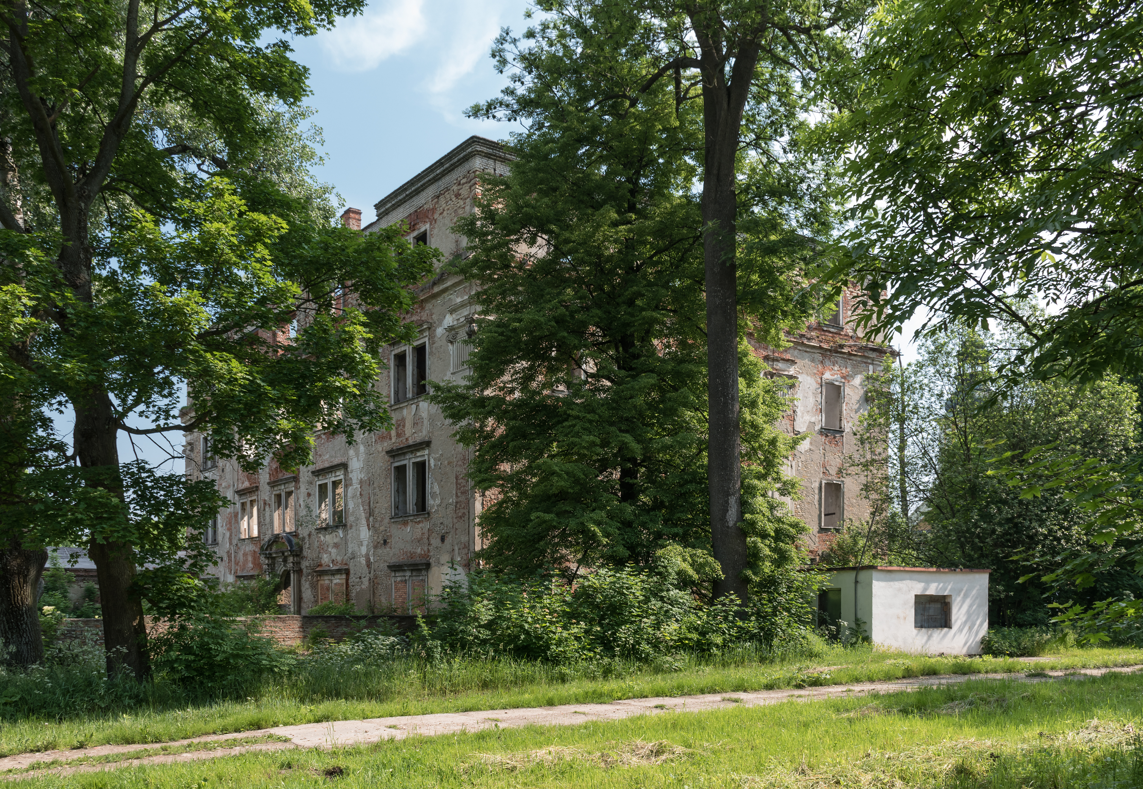 Palace in Wilkanów